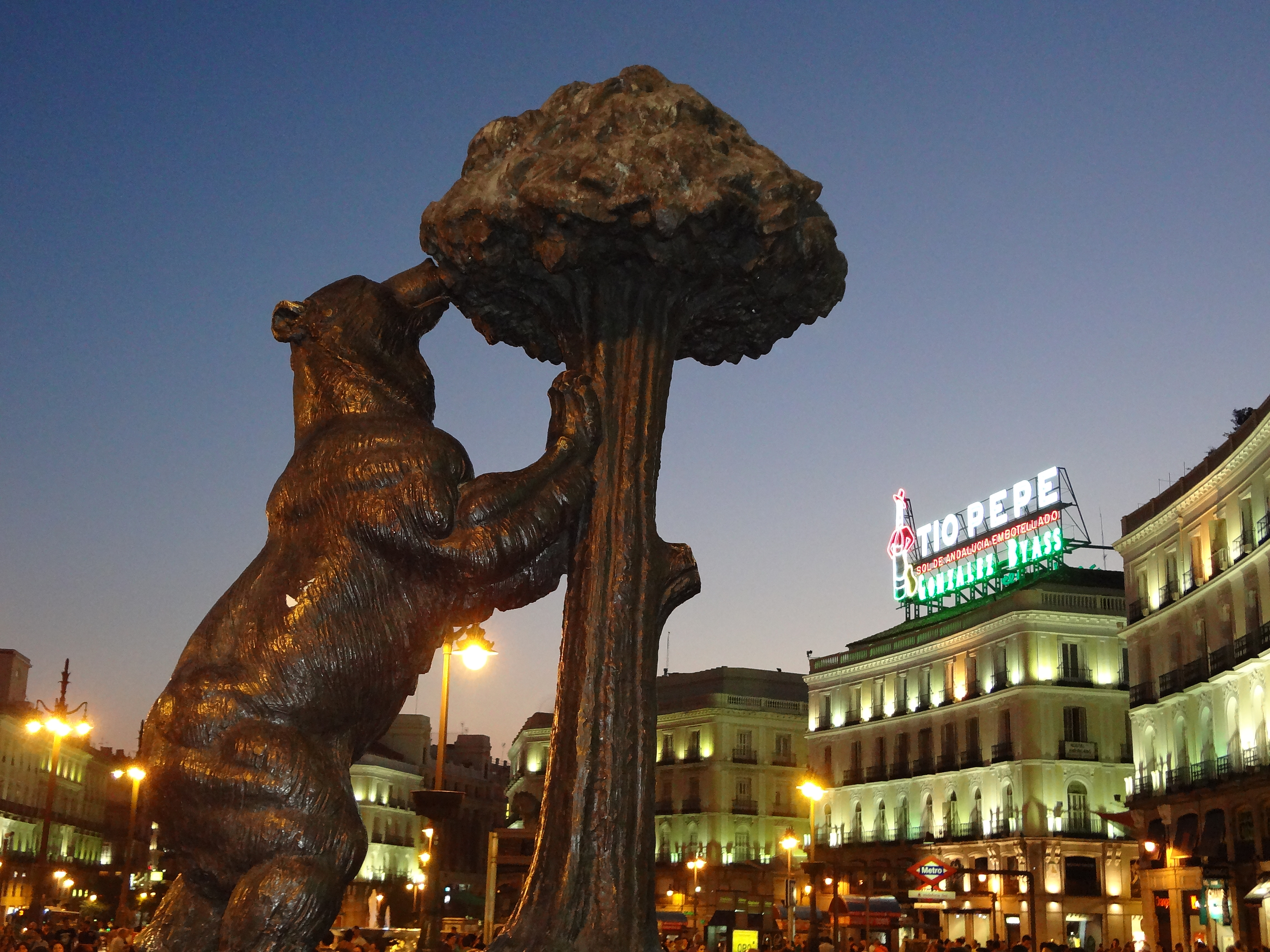 Statue by sculptor Antonio Navarro Santafe Madrid Spain Bear Statue with the The Tio Pepe Neon Advertisment in the distance